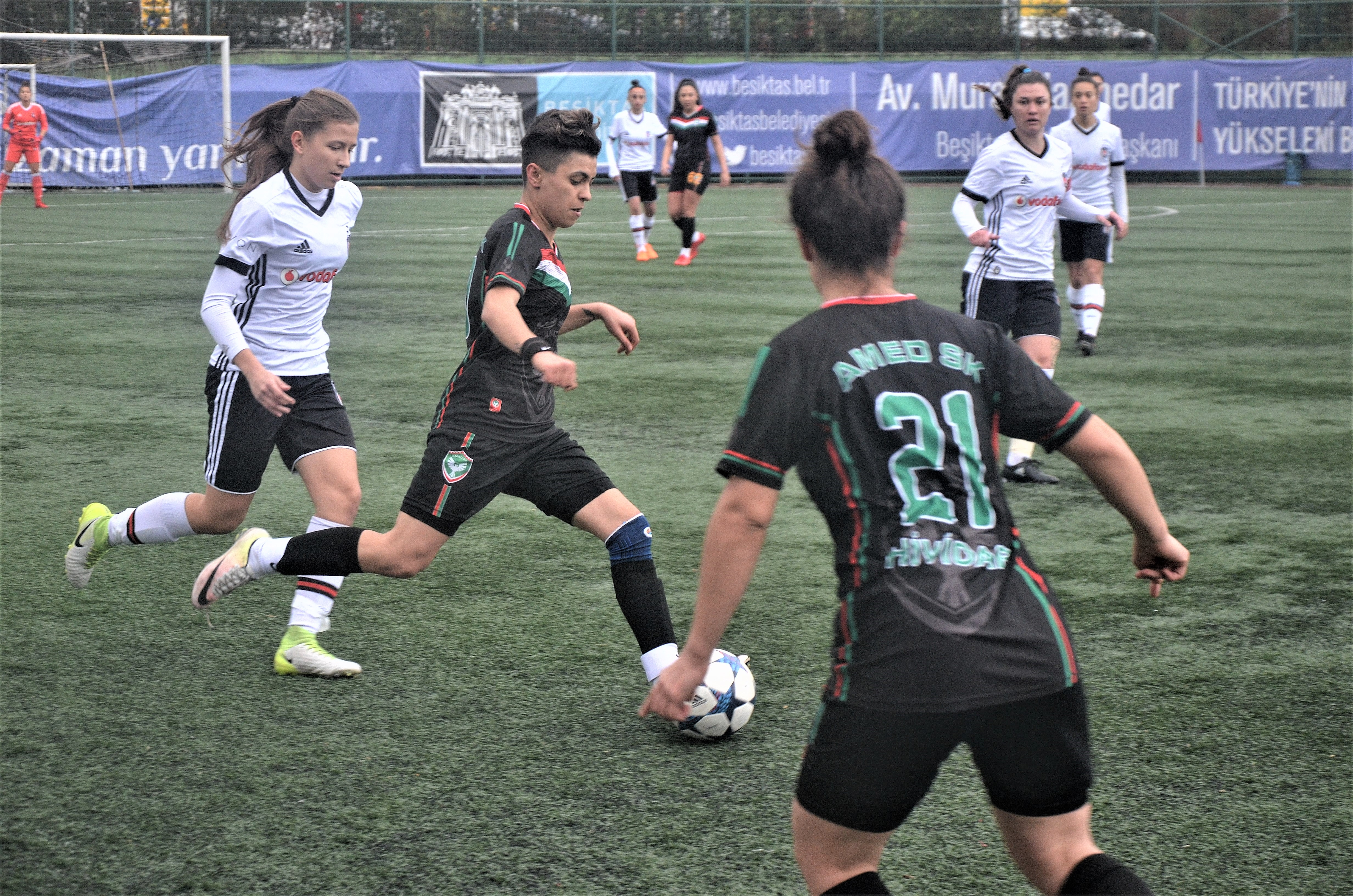 Zelal Baturay attacking for Amed S.K. in the 2017-18 Turkish Women's First League in the away match against Beşiktaş J.K.